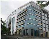 Softdel Building